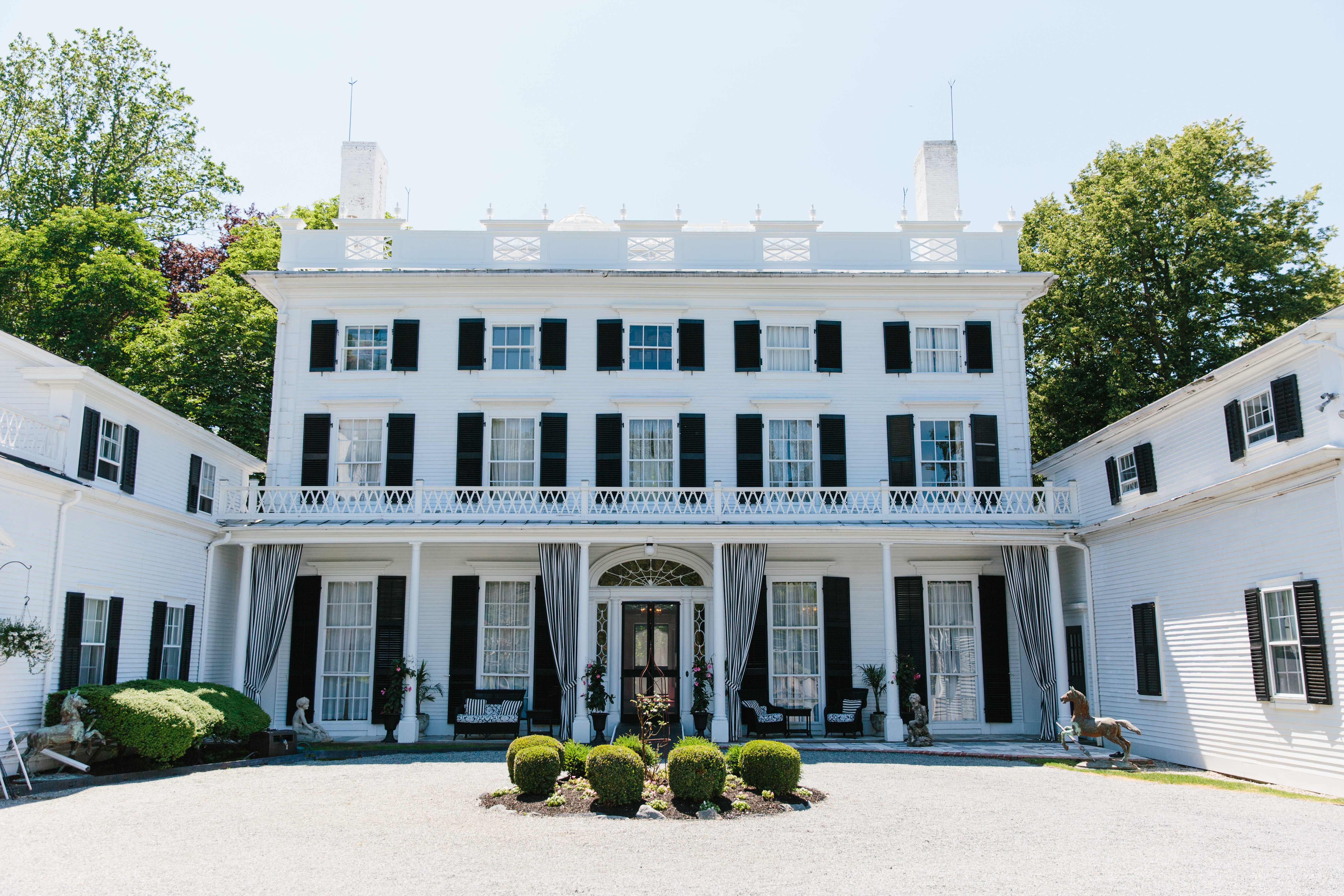 Photo credit: Tiffany Axtmann Photography